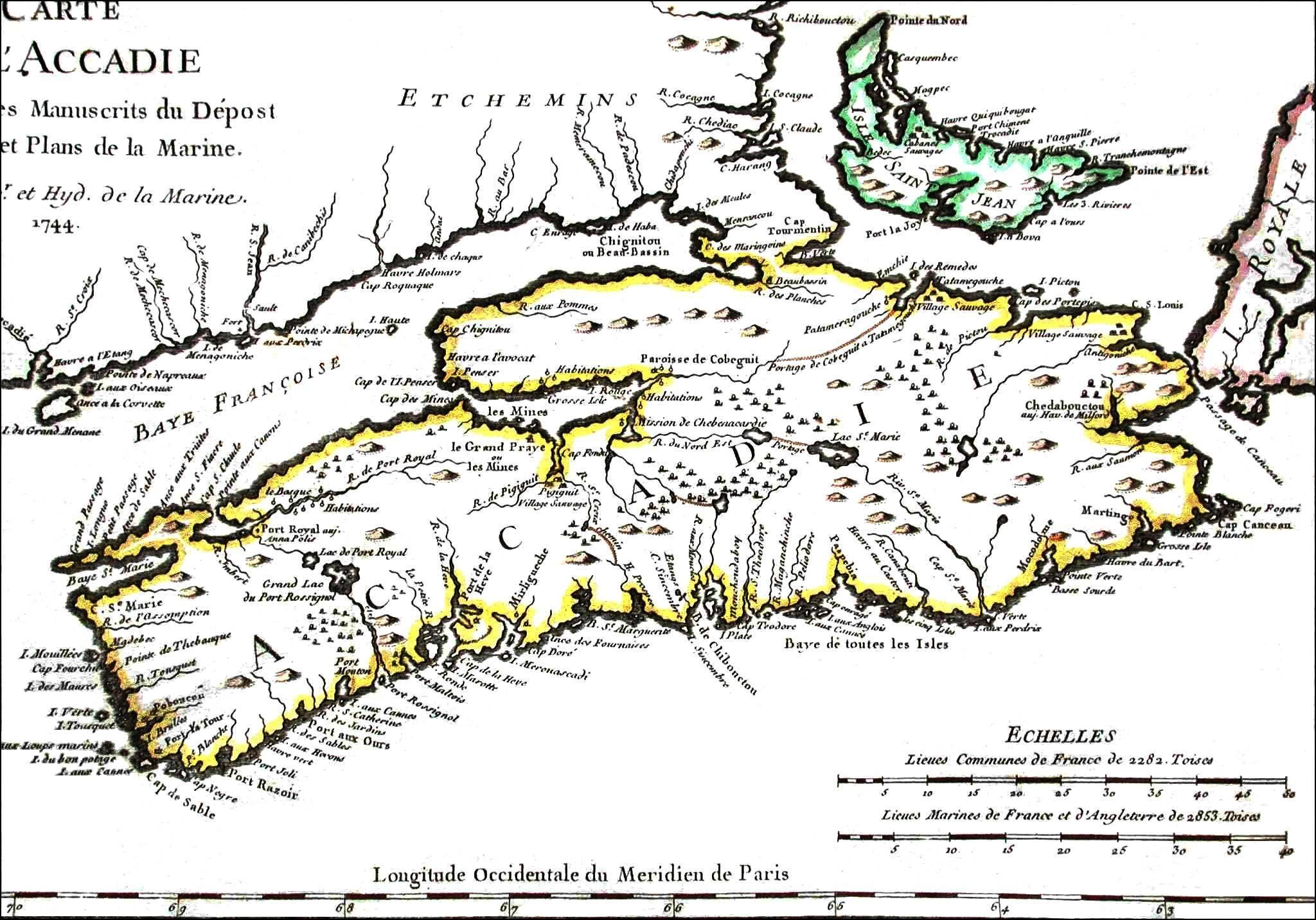 Map of Acadia, 1744